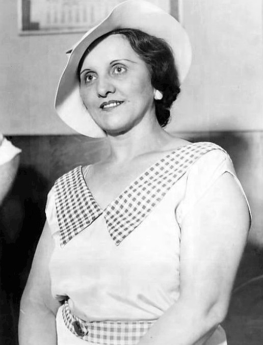 Photo of Anna Sage, best known as the "woman in red" who agreed to identify John Dillinger to law enforcement agents. Sage made an agreement to wear red as she and a female friend were escorted to the Biograph Theater in Chicago by Dillinger. This was how Dillinger was identified and killed as he left the theater with the women.